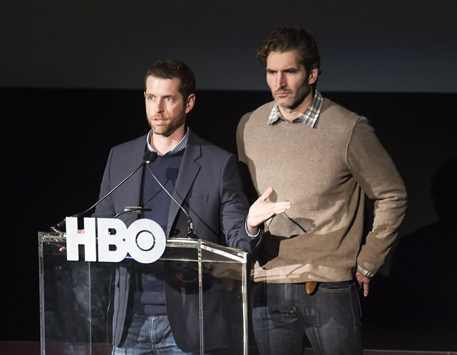 D. B. Weiss and David Benioff at HBO's Game Of Thrones Season 3 Seattle Premiere at Cinerama.